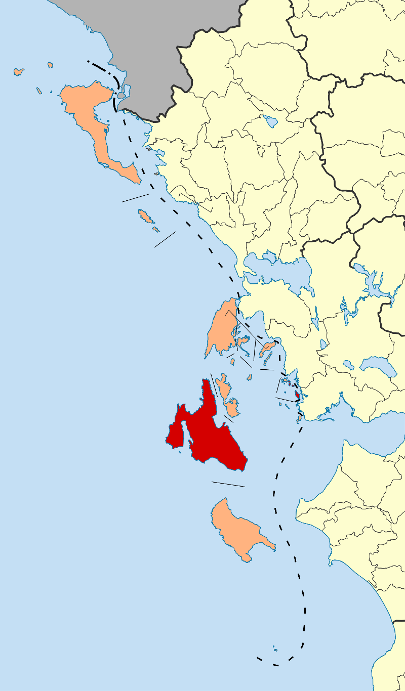 Locator map for Kefalonia municipality in Greek region Ionian Islands (2011)